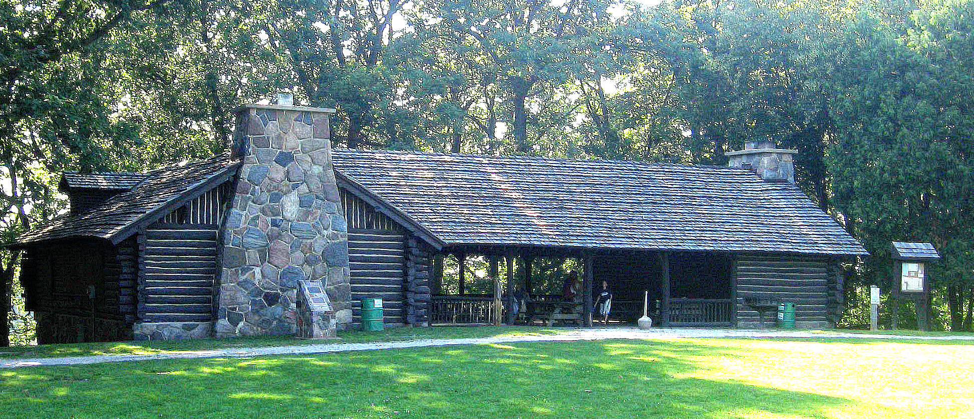 Photo of the CCC Shelter at Pokagon State Park, near Angola, Indiana. Built by the Civilian Conservation Corps in 1935/36, this shelter is on the National Register of Historic Places as the "Combination Shelter".